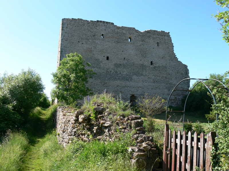 Brunehaut Tower in Vaudémont, Lorraine, France.